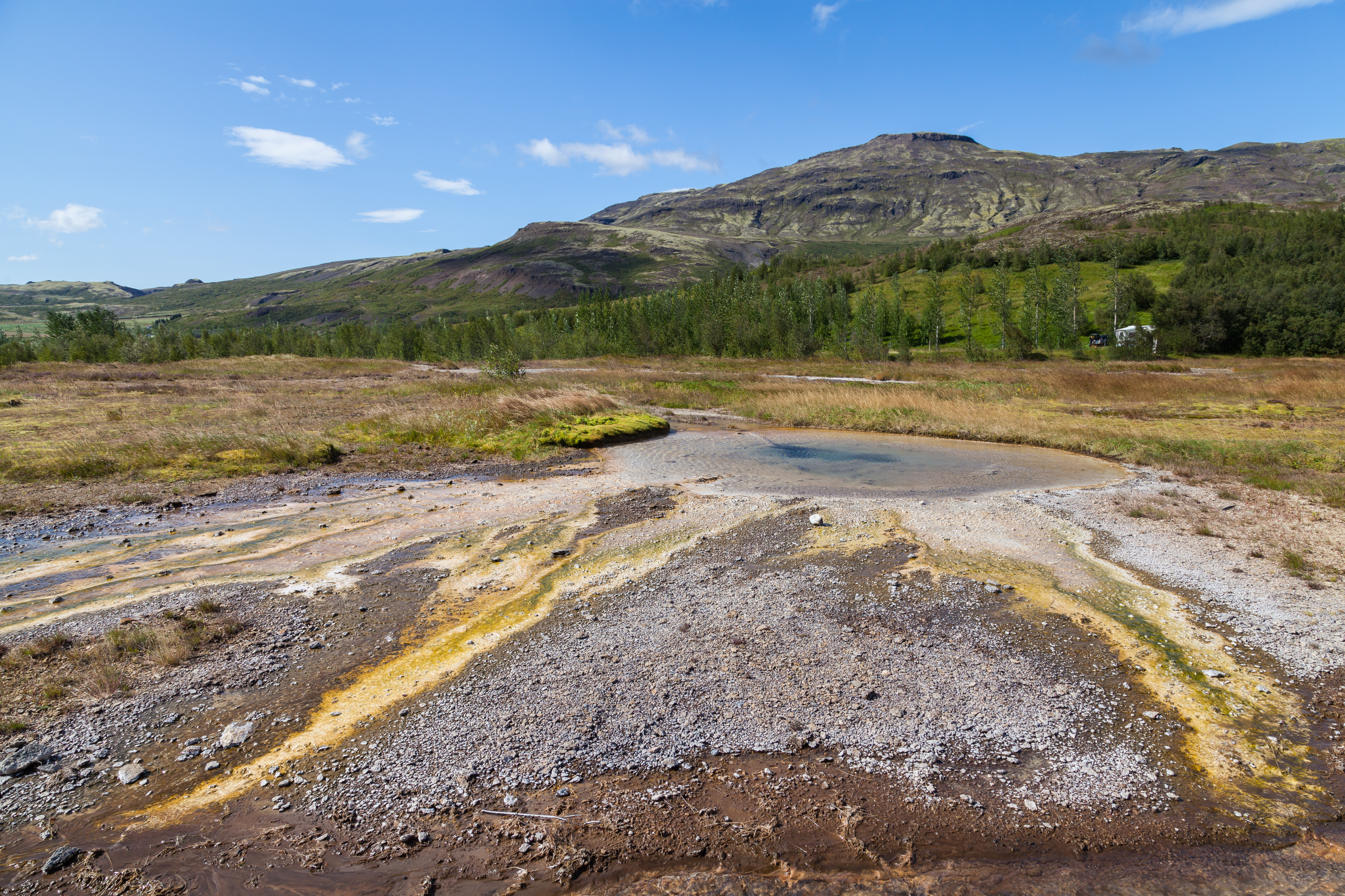 Geysir Geothermal Field, Suðurland, Iceland